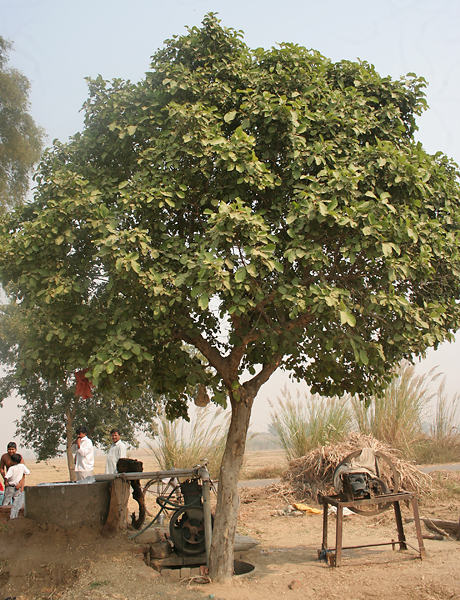 Kaim Mitragyna parvifolia at Hodal in Faridabad District of Haryana, India.